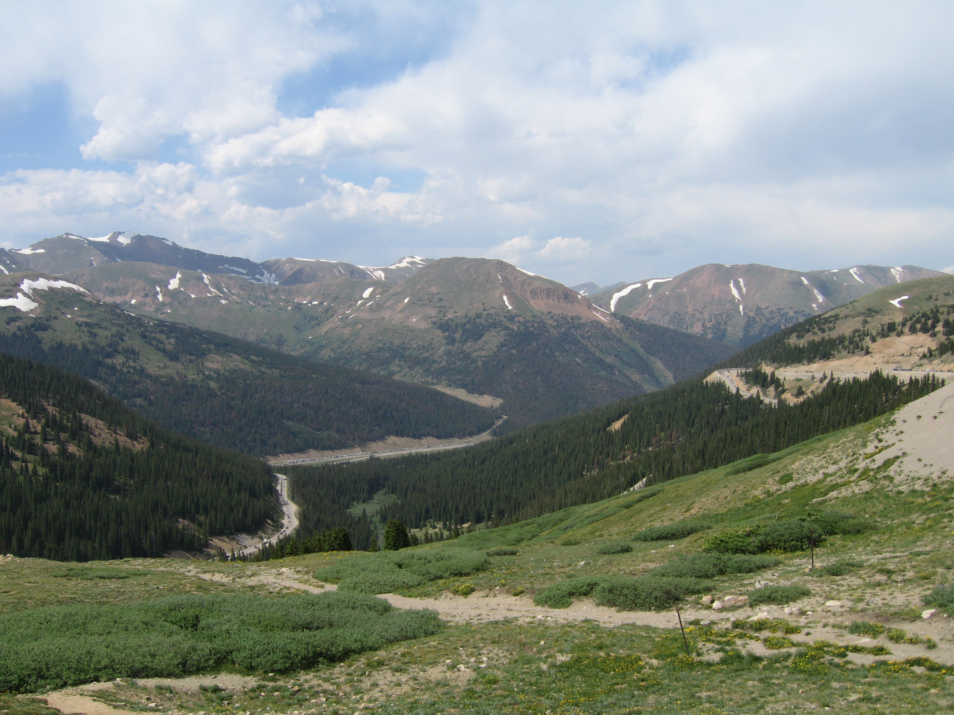 Loveland Pass, Colorado, looking east from the summit.